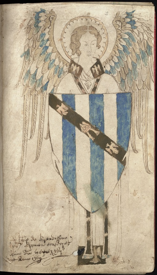 Coat of arms of John Grandisson, Bishop of Exeter from 1327-1369, in his psalter. Blazon: Paly of six argent and azure, a bend sable charged with a mitre upon a priest's stole between two eagles displayed argent "Lives of the Bishops of Exeter" blazons his arms as: Paly of six argent and azure, a bend gules charged with a mitre between two eaglets displayed or, being Grandisson paternal arms differenced by substitution of the mitre for the middle eagle. Grandisson bequeathed his Psalter to Isabella, dau. of King Edward III